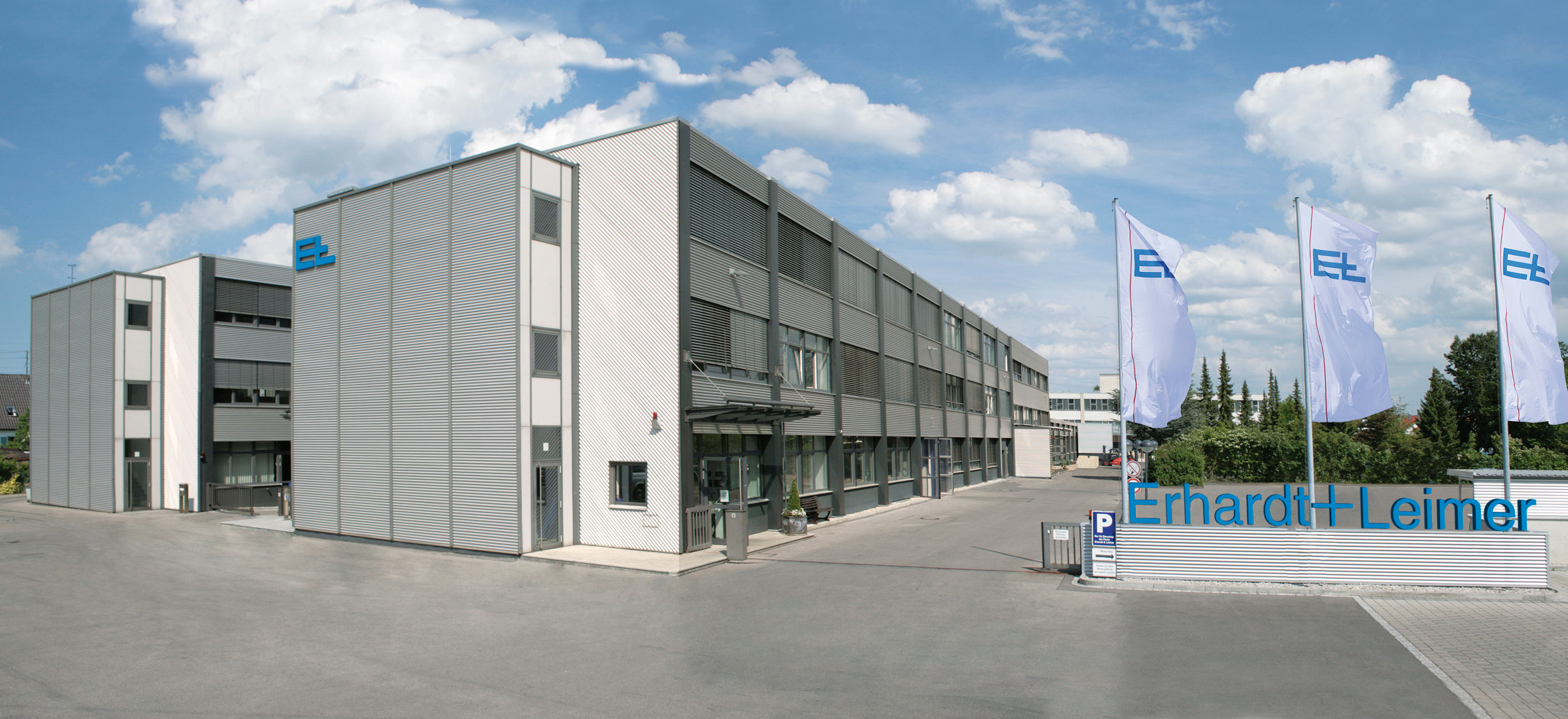 Erhardt+Leimer GmbH - Headquarter